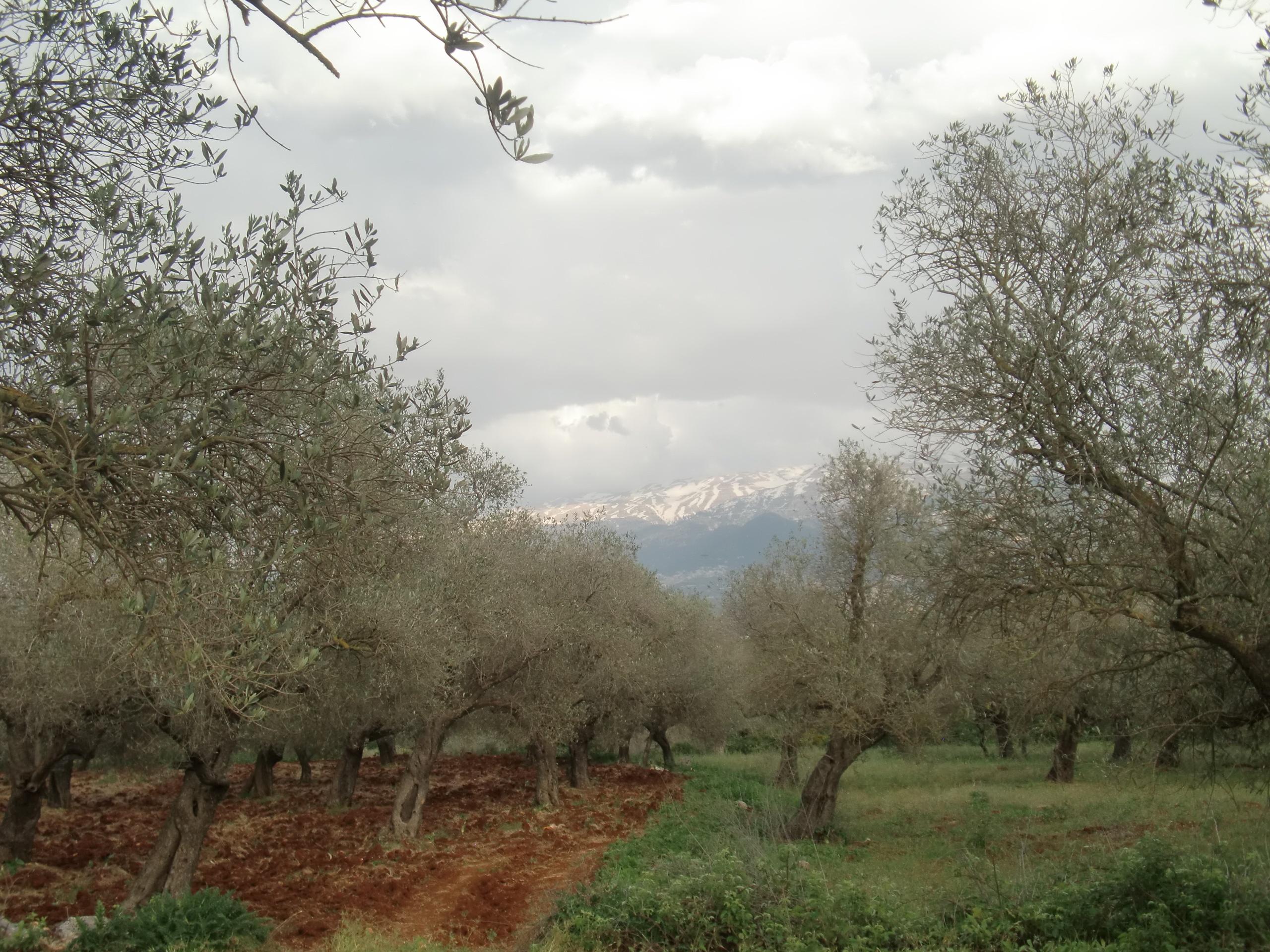 Orchard of Olive trees in Bterram (Btourram), Lebanon